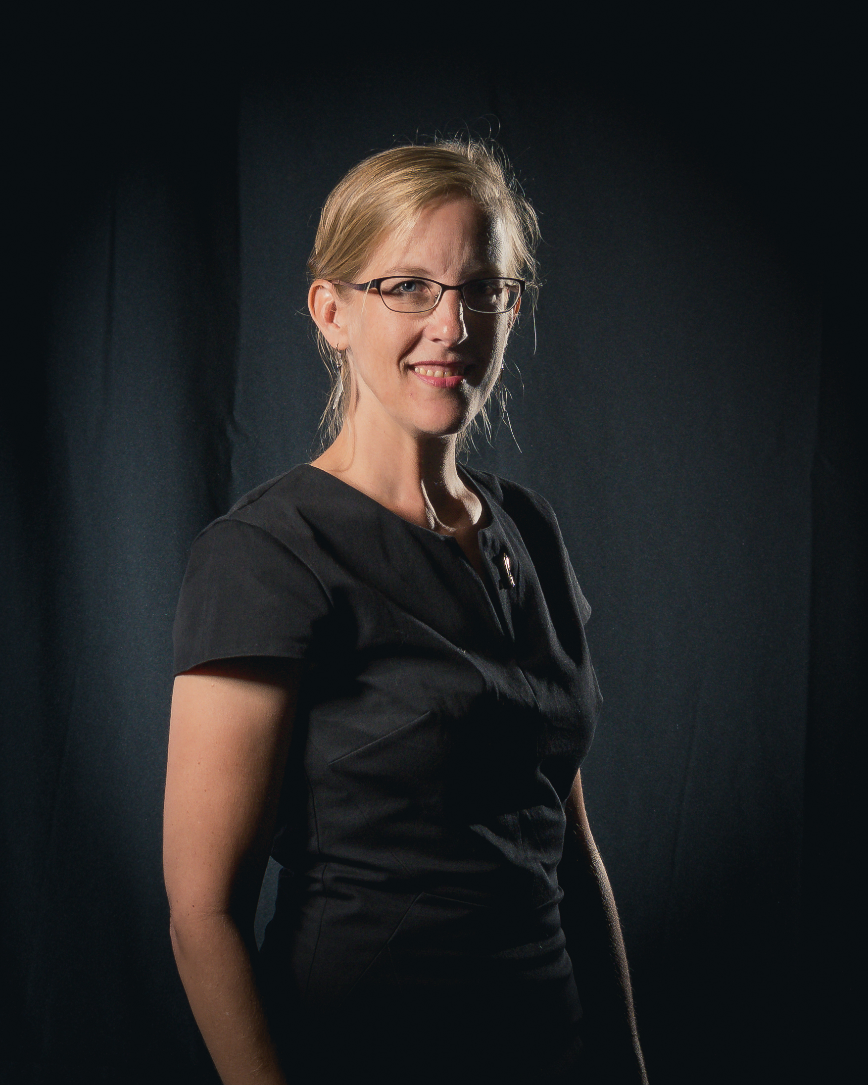 Portrait photoshoot at Worldcon 75, Helsinki, before the Hugo Awards: Carrie Vaughn